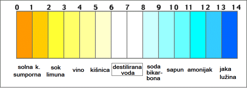 pH scale